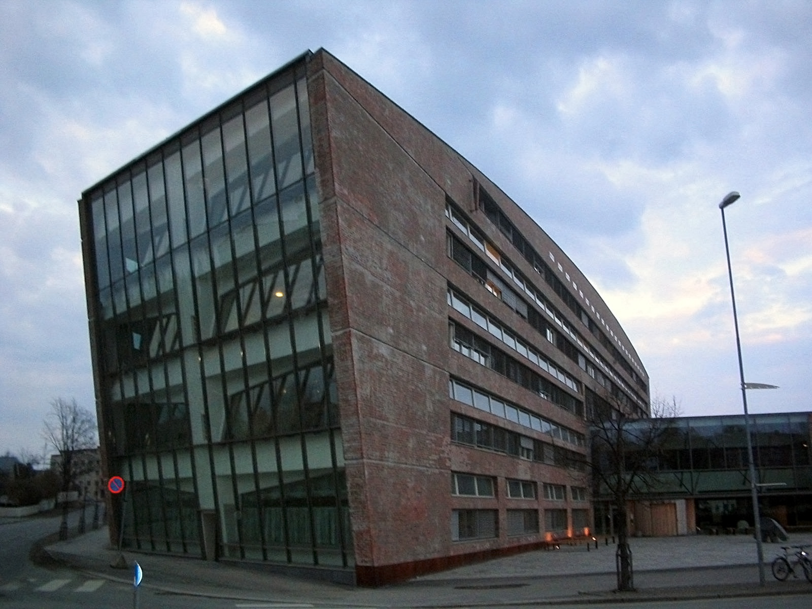 Hamar City Hall, Norway